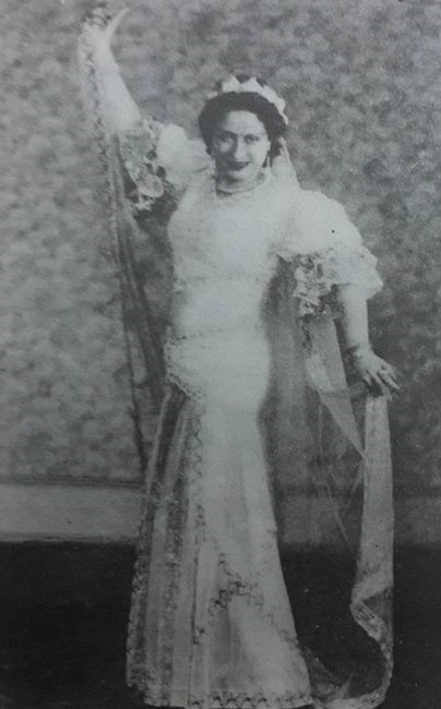 Badi'a Massabni in her wedding dress on 11 September 1924